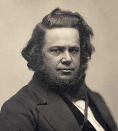 Elias Howe, circa 1850